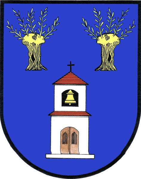 Coat of amrs of Vrbová Lhota , District Nymburk, Czech republic